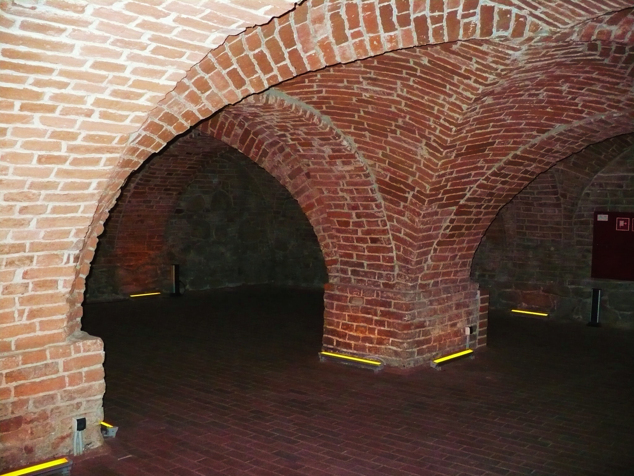 Gothic cellar at White Granarie